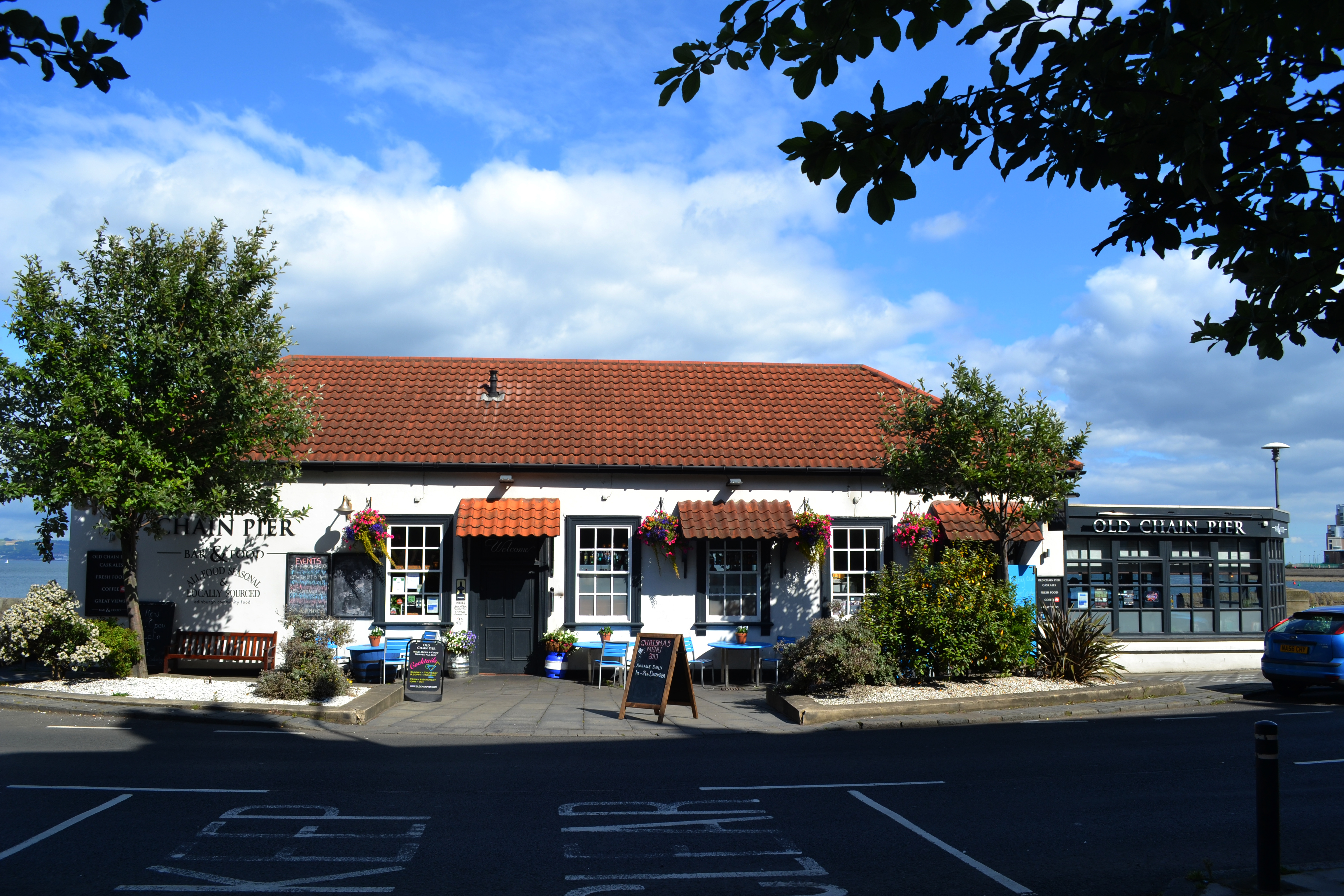 The Old Chain Pier pub and restaurant in Trinity, Edinburgh